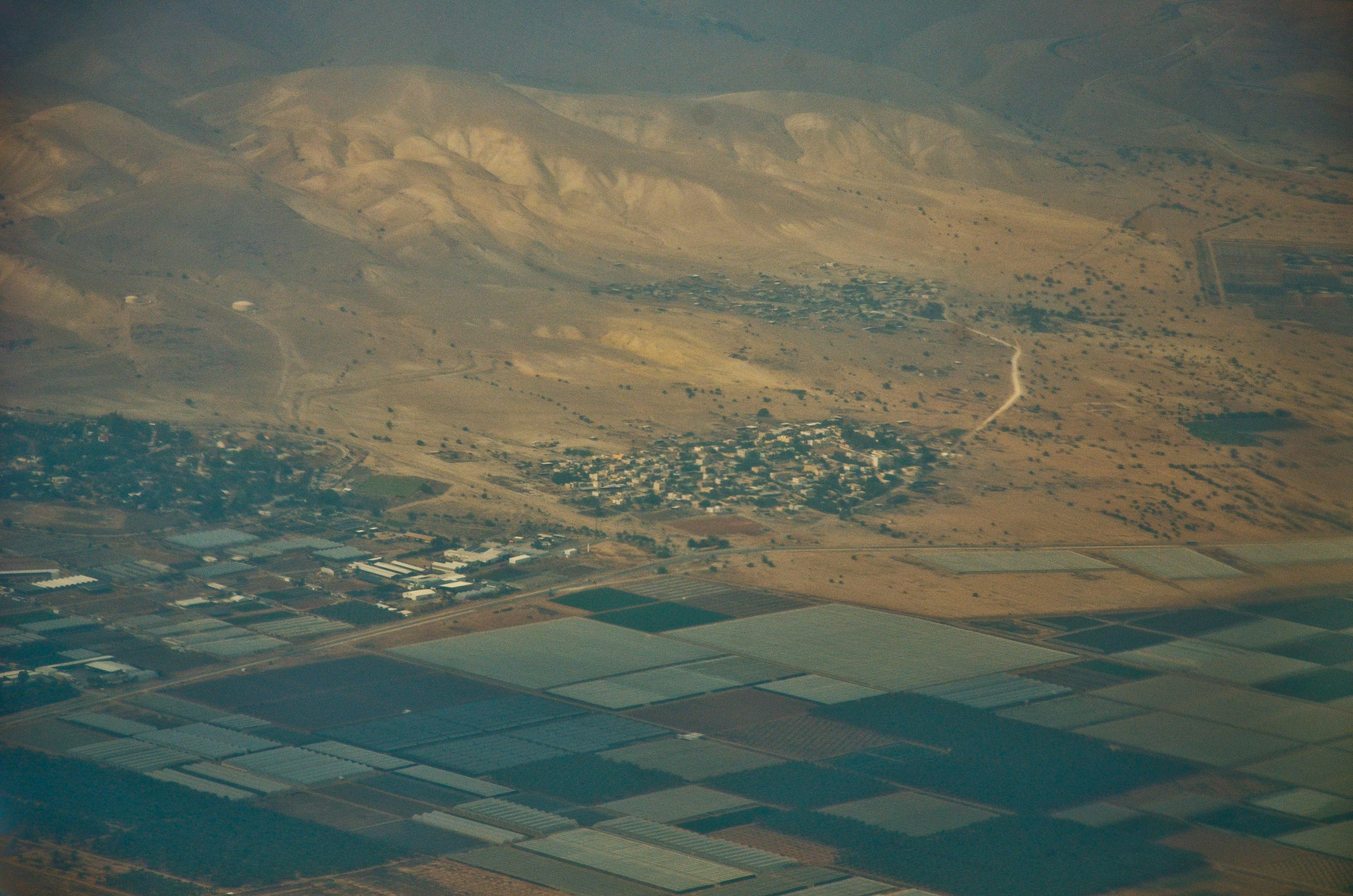 Shot taken from plane flown by Ilan Maytal